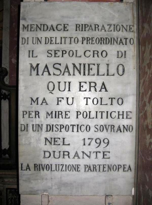 Masaniello's memorial headstone in the Church of Carmine (Naples).